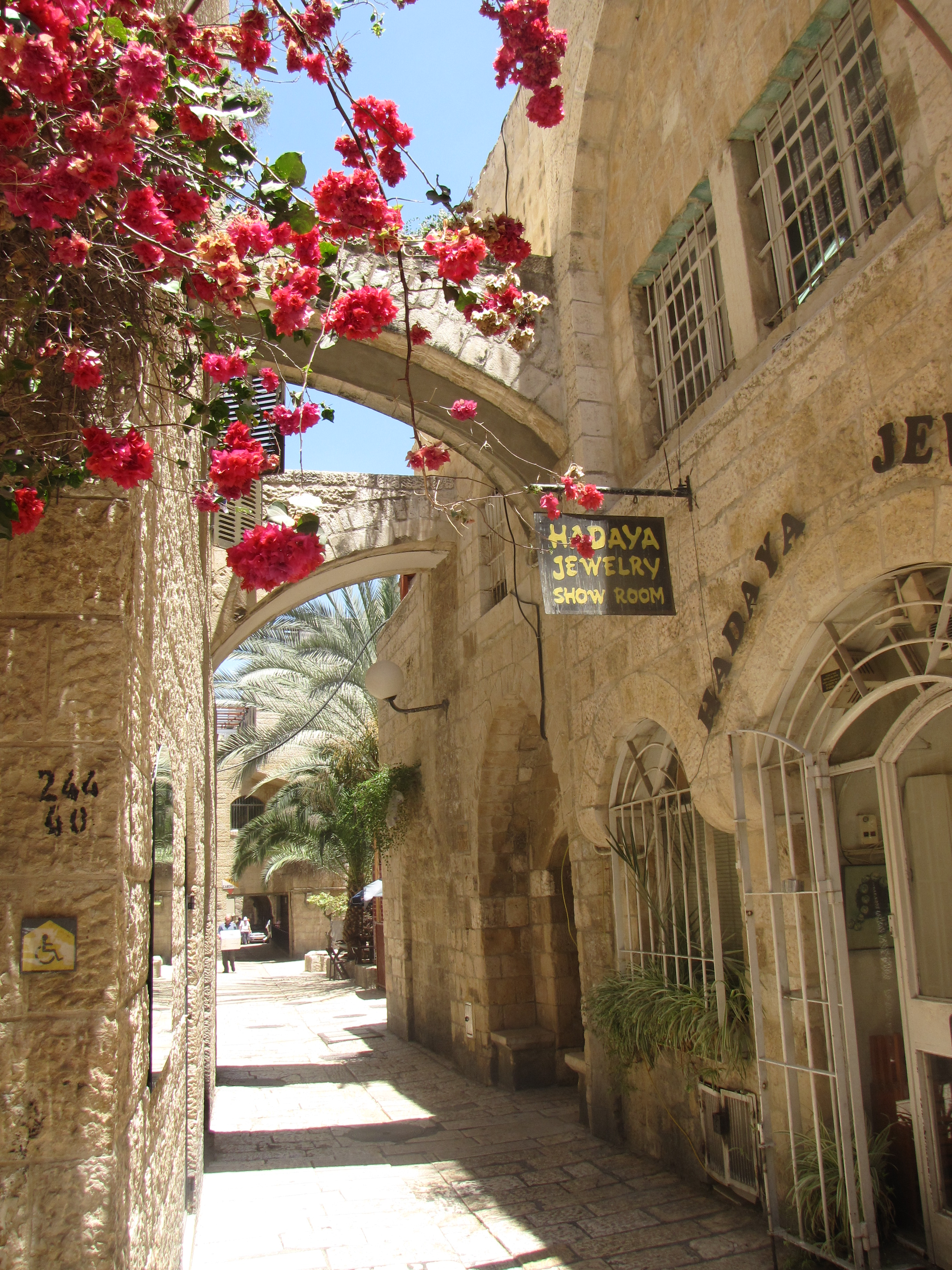 Old part of Jerusalem - Jewish Quarter. Hadaya, One of a kind Jewelry 91 HaYehudim st. Jewish Quarter, Old City Jerusalem. the store is now on the other side of the street.